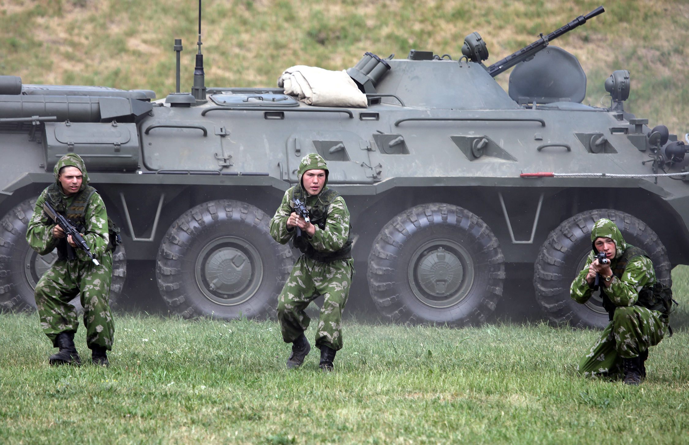 Recon battalion of 2nd Guards Tamanskaya Motor Rifle Division